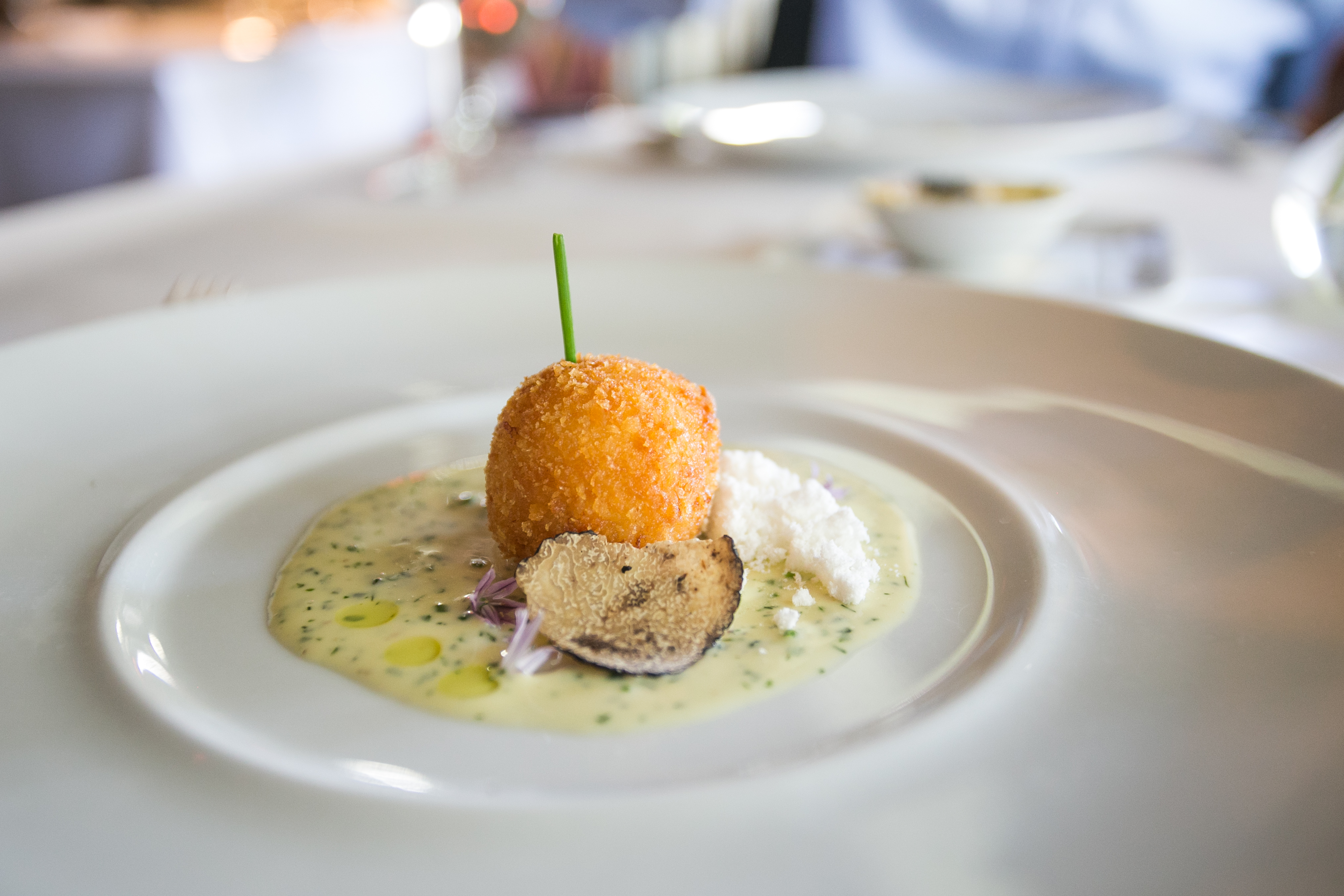 Chez TJ, Mountain View, CA Date Visited: June 1, 2013 City Foodsters Facebook | Twitter | Instagram